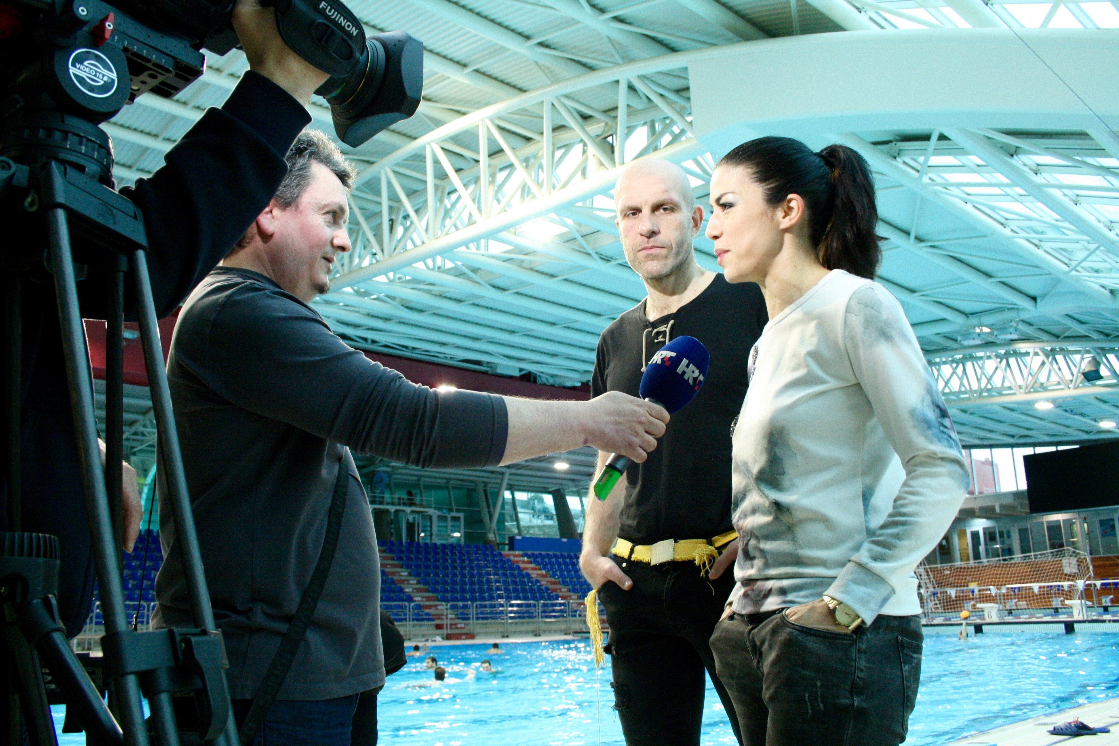 Daniela Scalia interview with HRT1